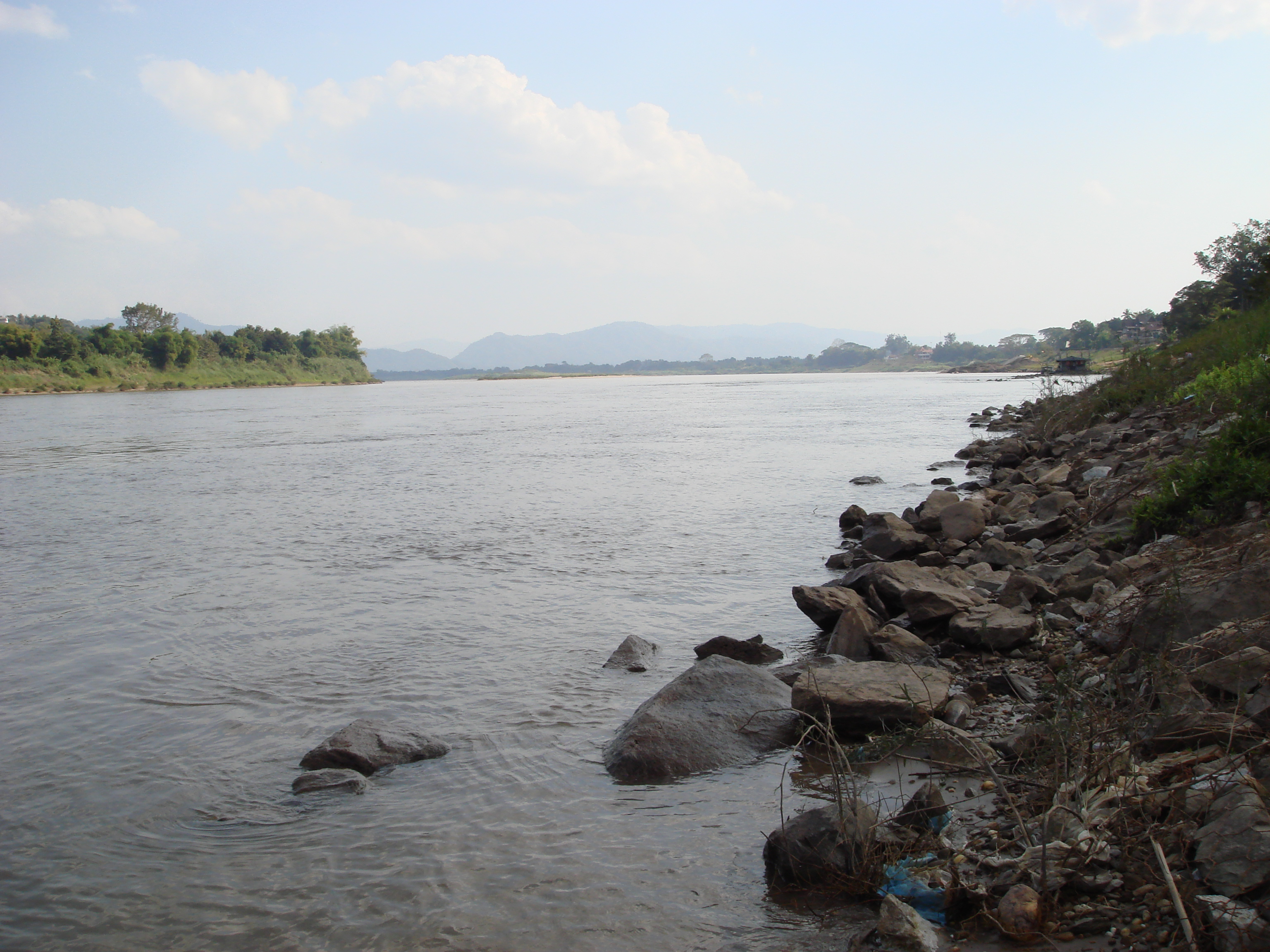 Mekong near Chiang Khong (Thailand).